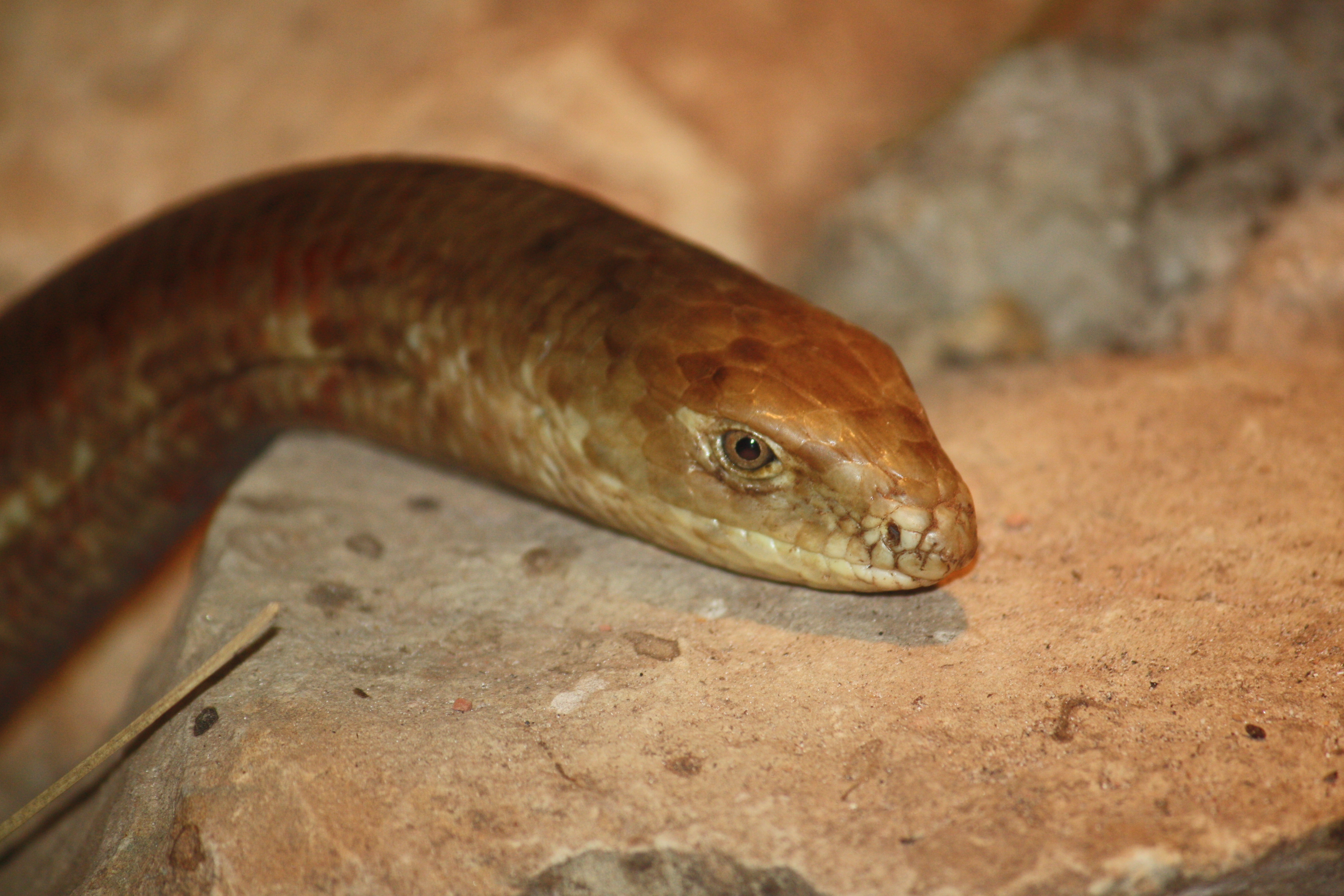 Sheltopusik (Ophisaurus apodus)at the Louisville Zoo